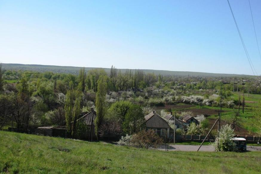 Uspenka, Luhansk Oblast